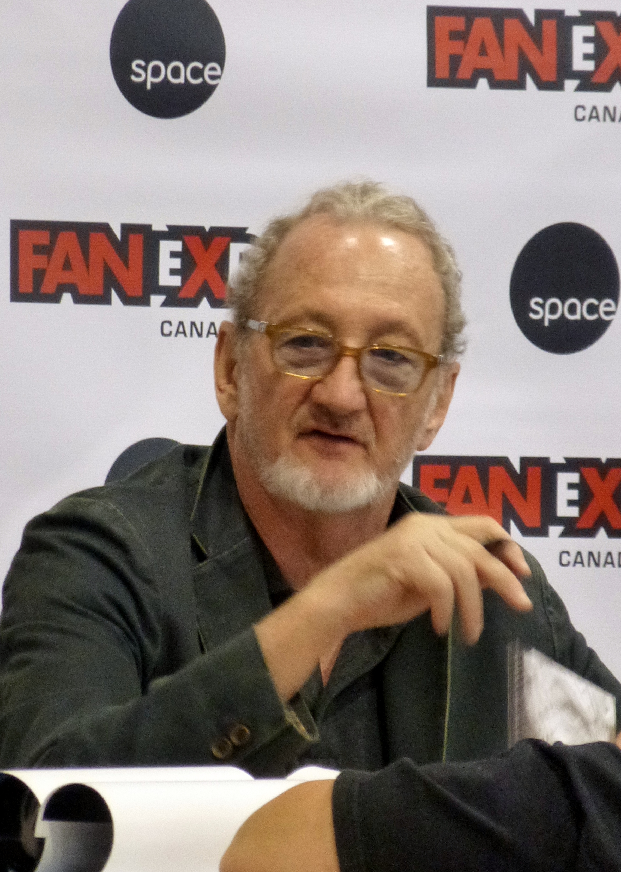 Robert Englund 03 2014 Fan Expo Canada